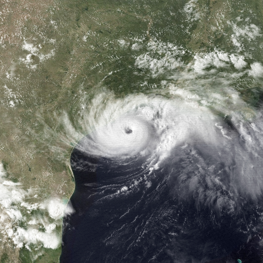 Hurricane Alicia rapidly intensifying off the coast of Texas on August 17, 1983